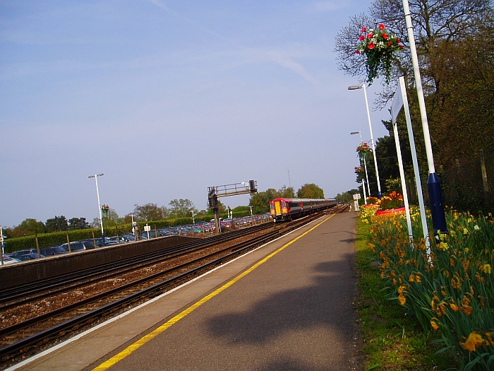 This picture is looking over the mainline, towards London Waterloo, the Image was taken on platform two, platform one is clearly visible on the far left of the image